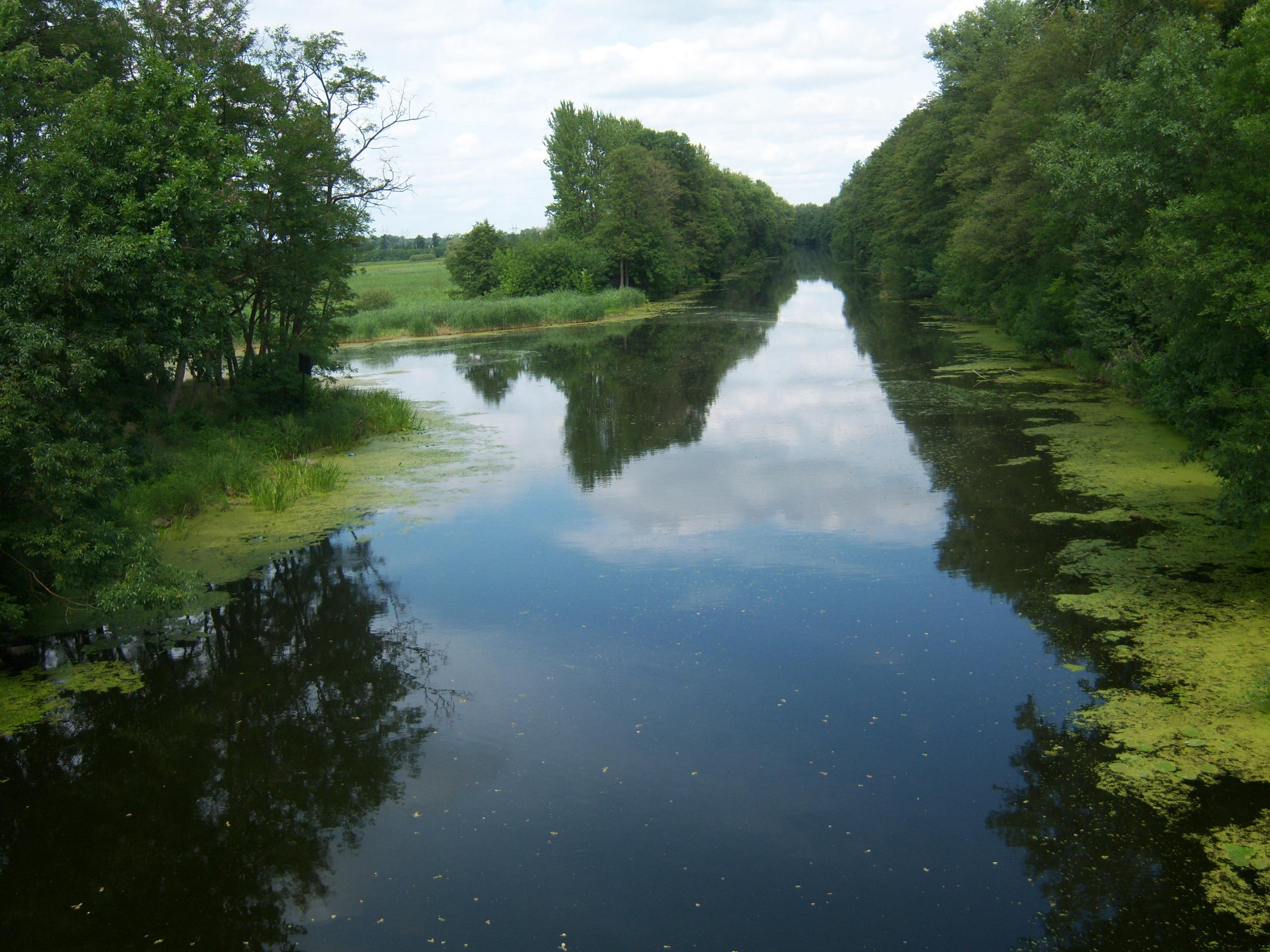 Warta-Gopło Canal in Konin, John Paul II Street